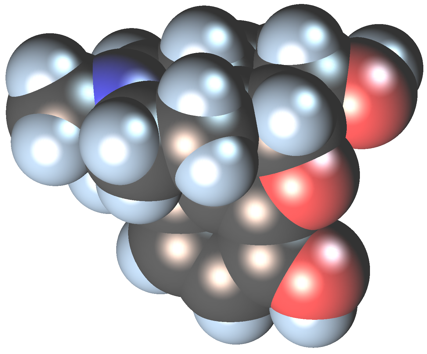 Model of morphine molecule